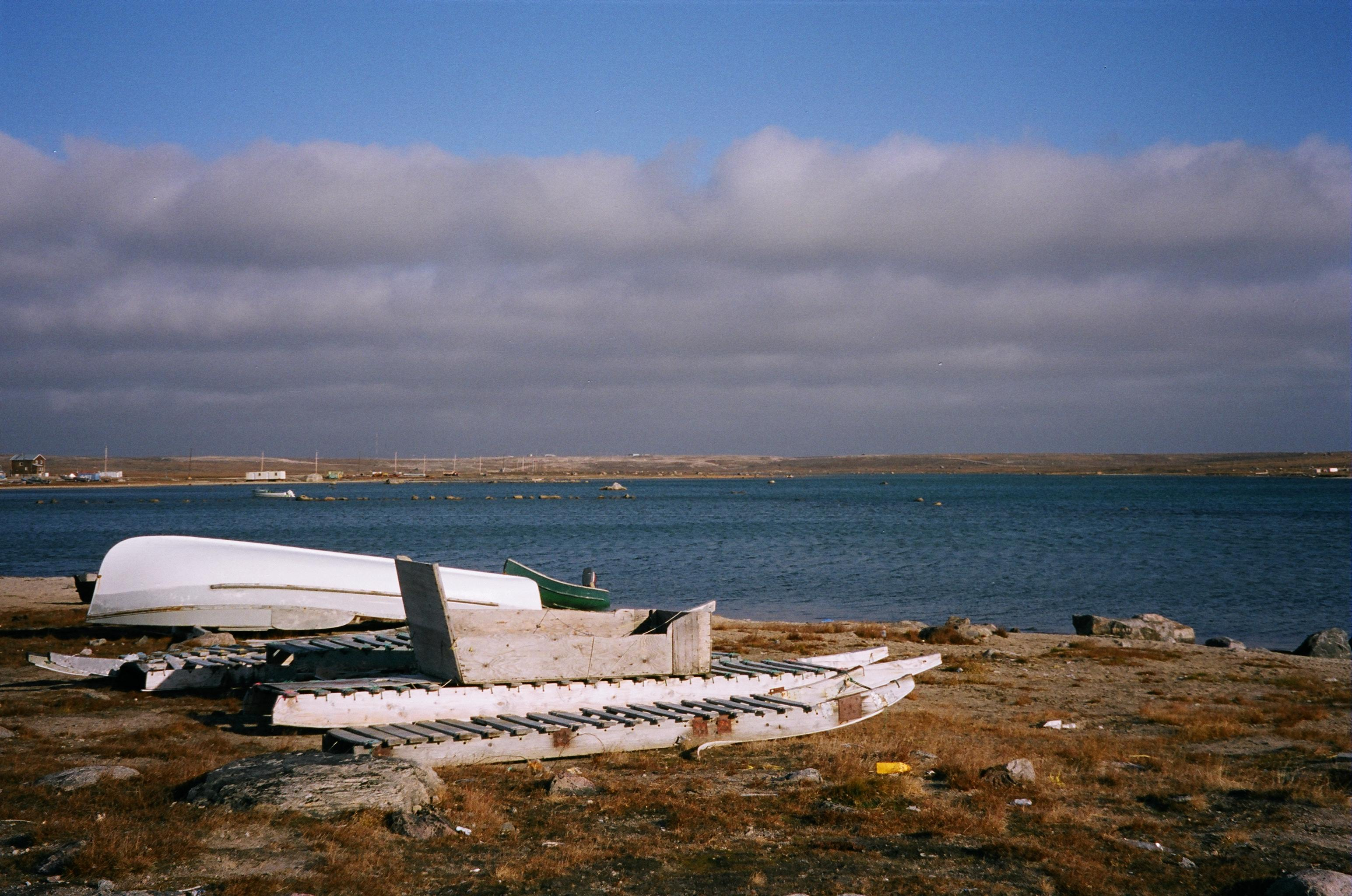 View of Clyde River, Nunavut, Canada including beached komatiks